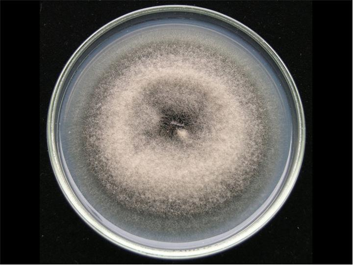 Culture of Colletotrichum sublineolum